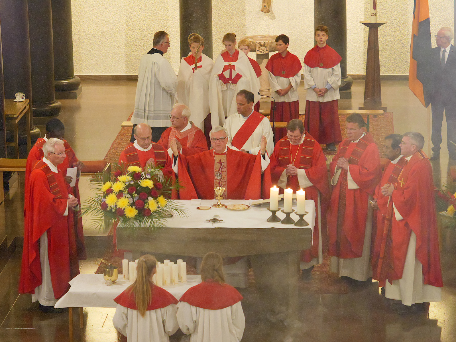 Pontifical High Mass in the parochial church Mater Dolorosa in Berlin-Lankwitz with Archbishop Dr. Heiner Koch on 14th September 2017.